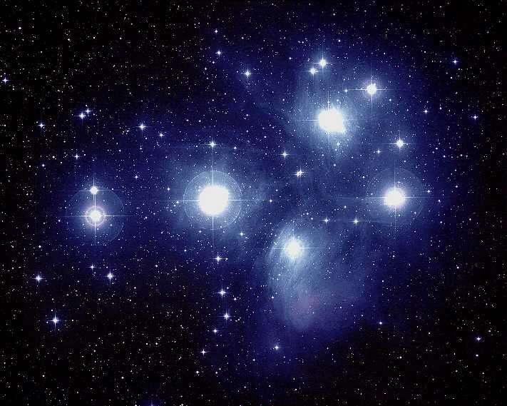 Pleiades ( ( for reference to same link))